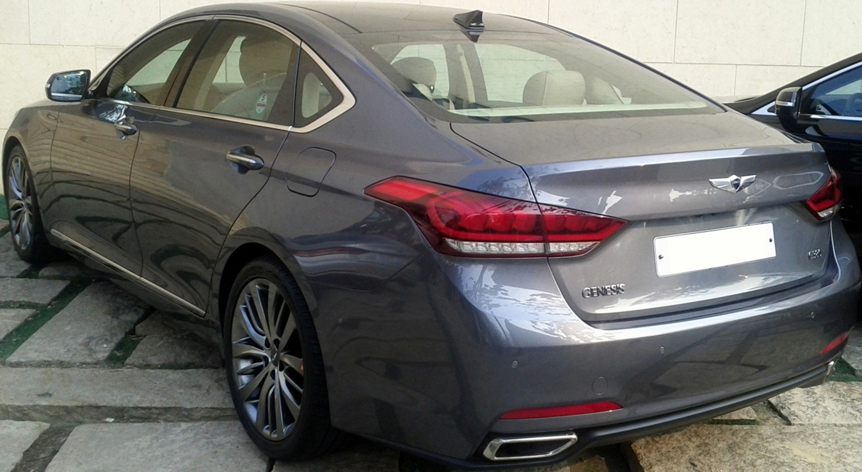 Hyundai Genesis